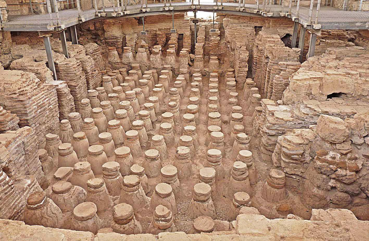 Roman floor heating vestiges - hypocaust.